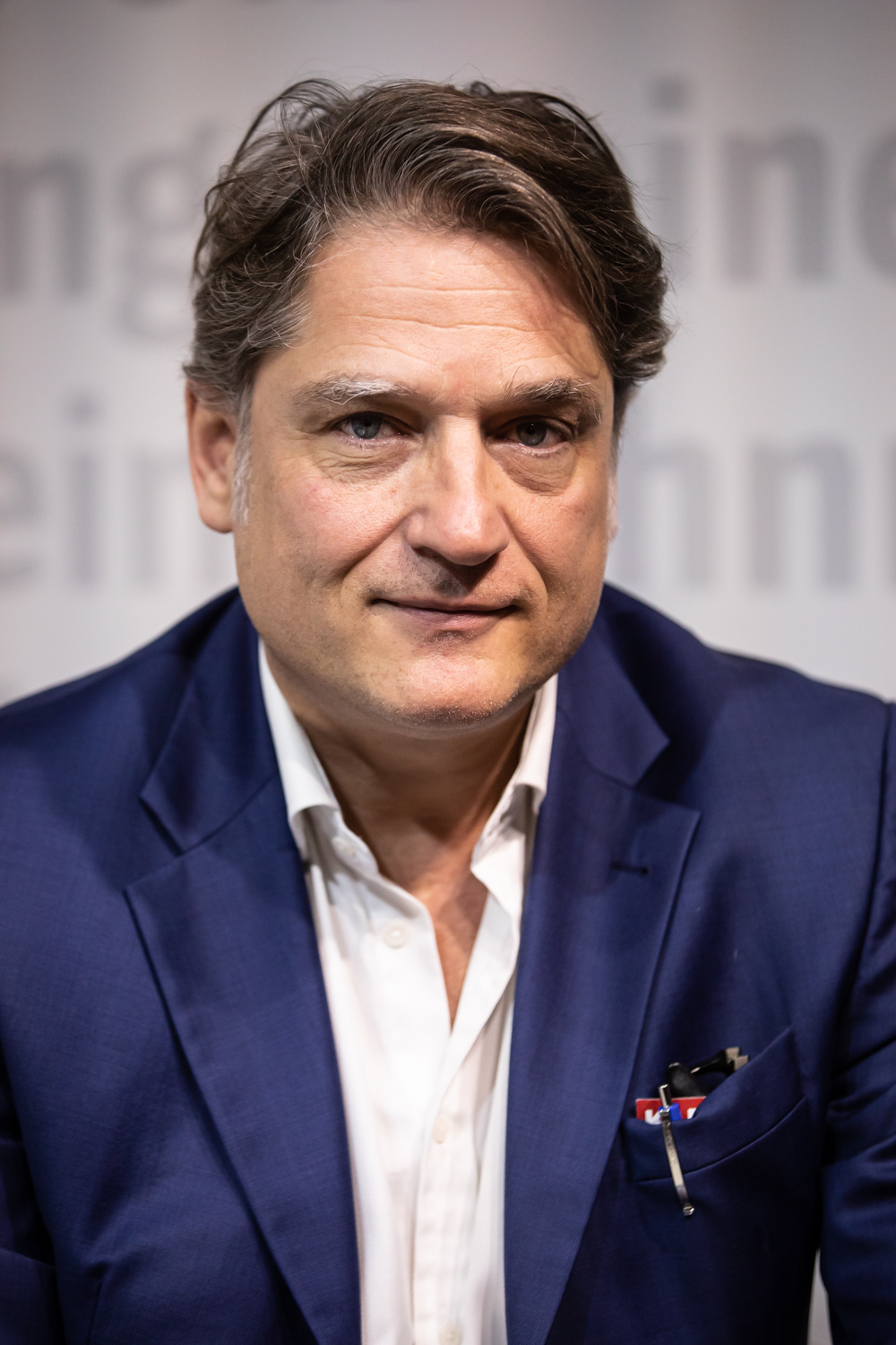 Publisher and author Jakob Augstein at the Frankfurt Book Fair 2019